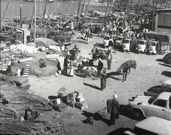 Old vegetables yard in Kuwait city